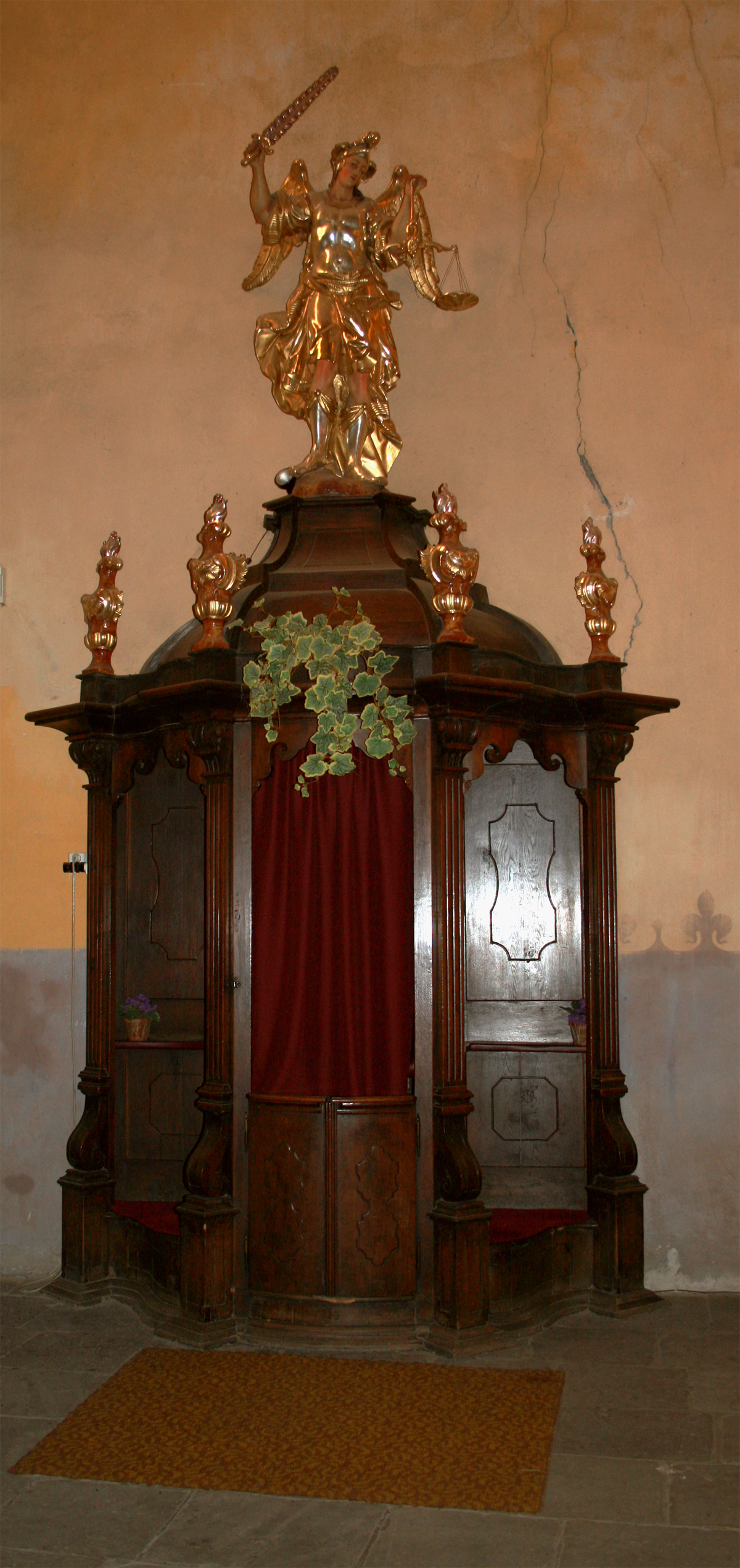 Confessional in Church of Saint Nicolas in Jaroměř, east Bohemia, Czech Republic